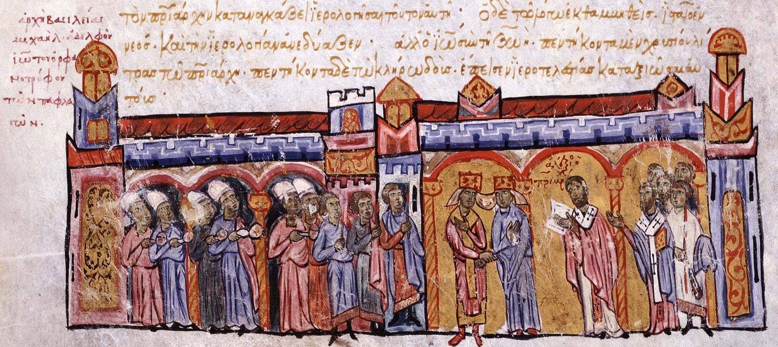 The wedding of Zoe and Michael the Paphlagonian